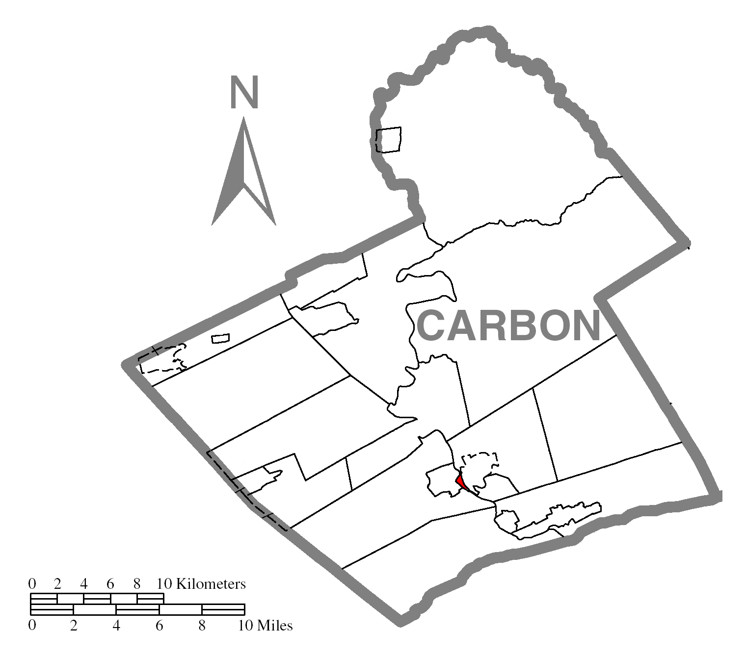 A map of Carbon County showing Weissport, Pennsylvania (alternate) highlighted on the map.